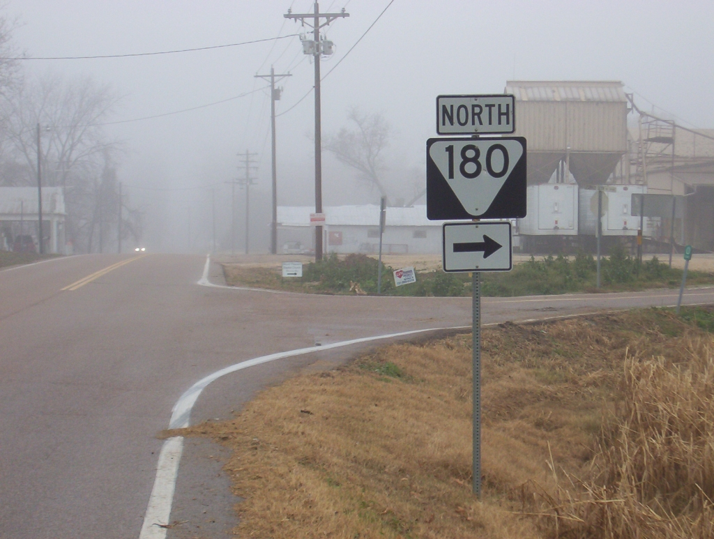 Southern terminus of SR 180 in Nutbush, TN (Dec. 2007) Photo made by: Thomas R Machnitzki I made the photo myself, feel free to use it.